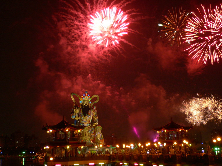 Bei-Ji Shien-Tien Emperor (Taoist God)